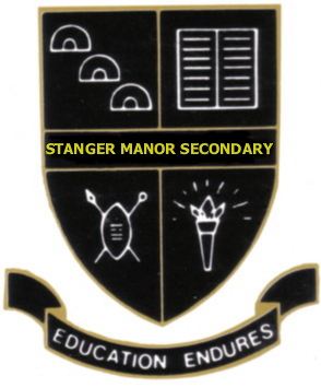 The Monogram For Stanger Manor Secondary School